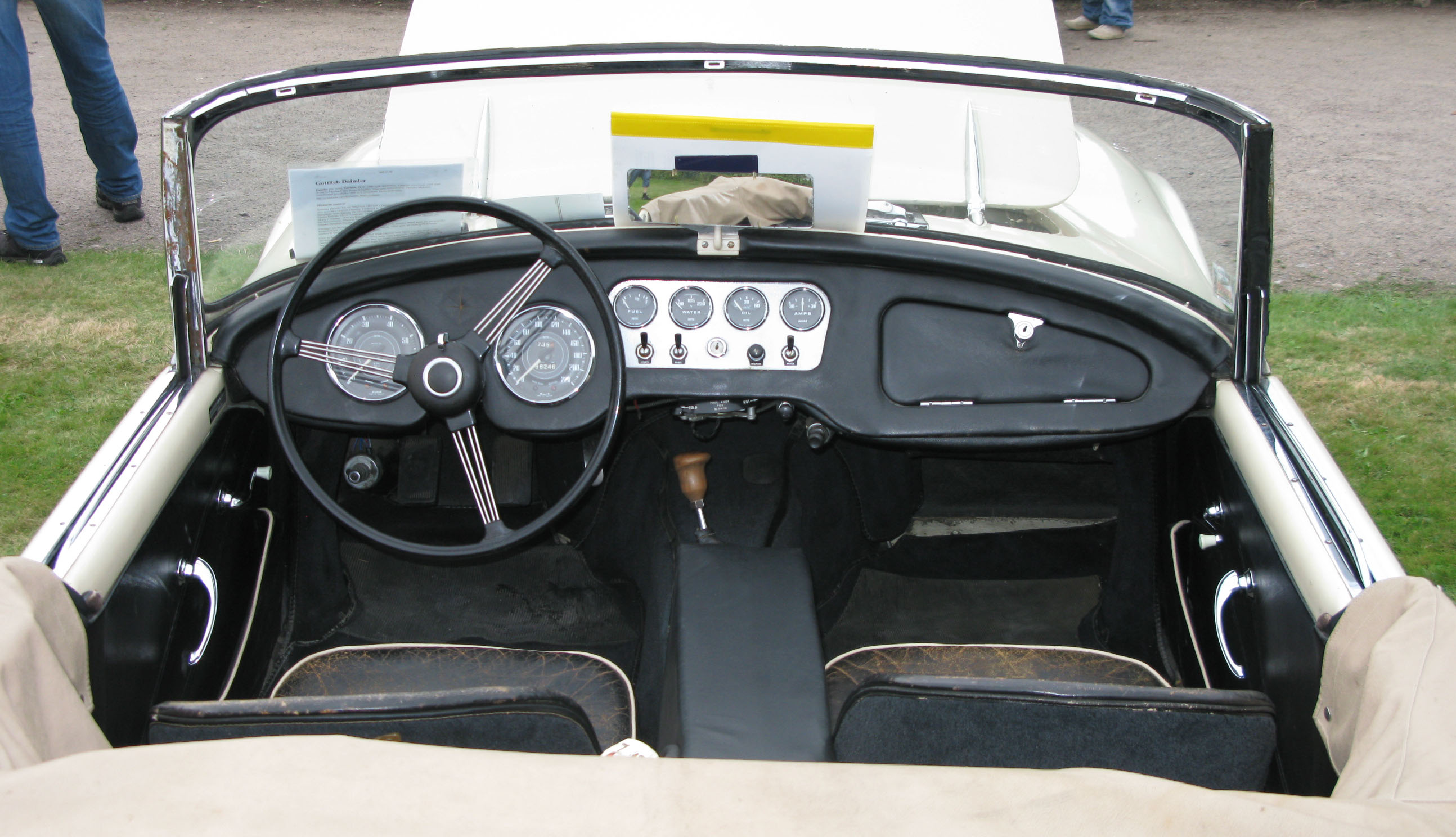 1961 Daimler SP250 dashboard.